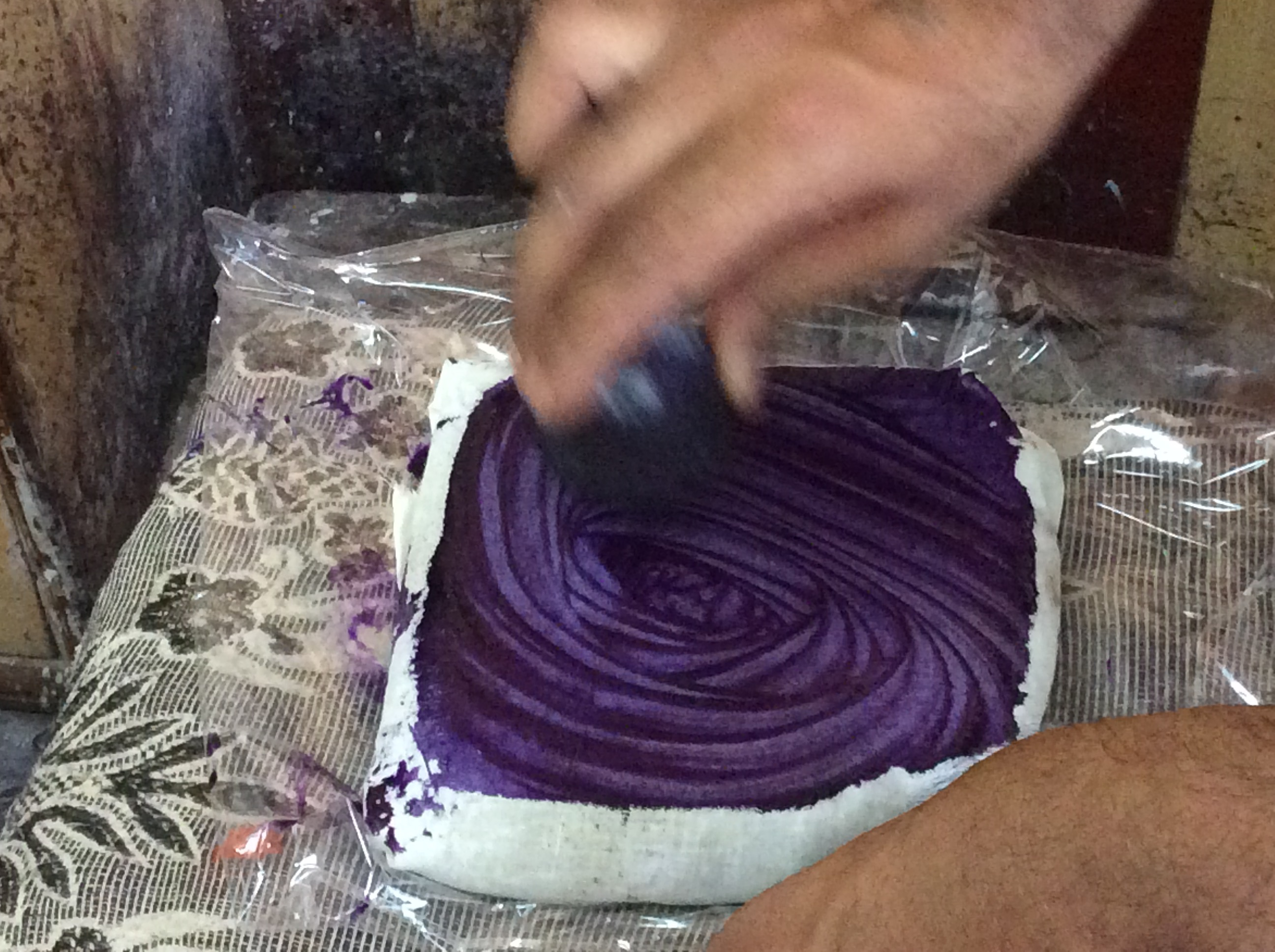 Award winning Phulkari embroiderer in Patiala demonstrating his blocks at his workshop